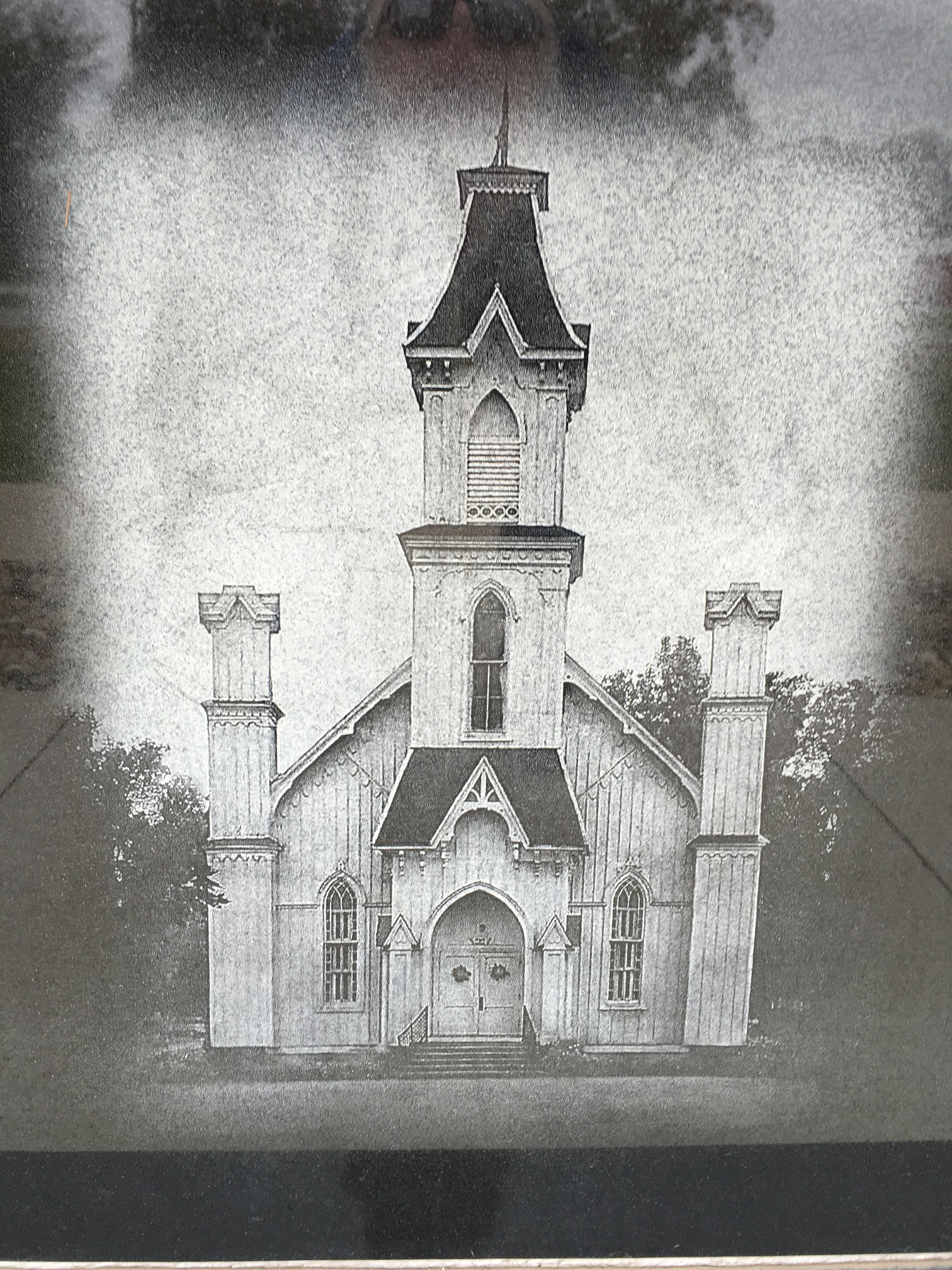 Church of Christ Image of the 1880 Church building is portrayed on the front side of the park monument.